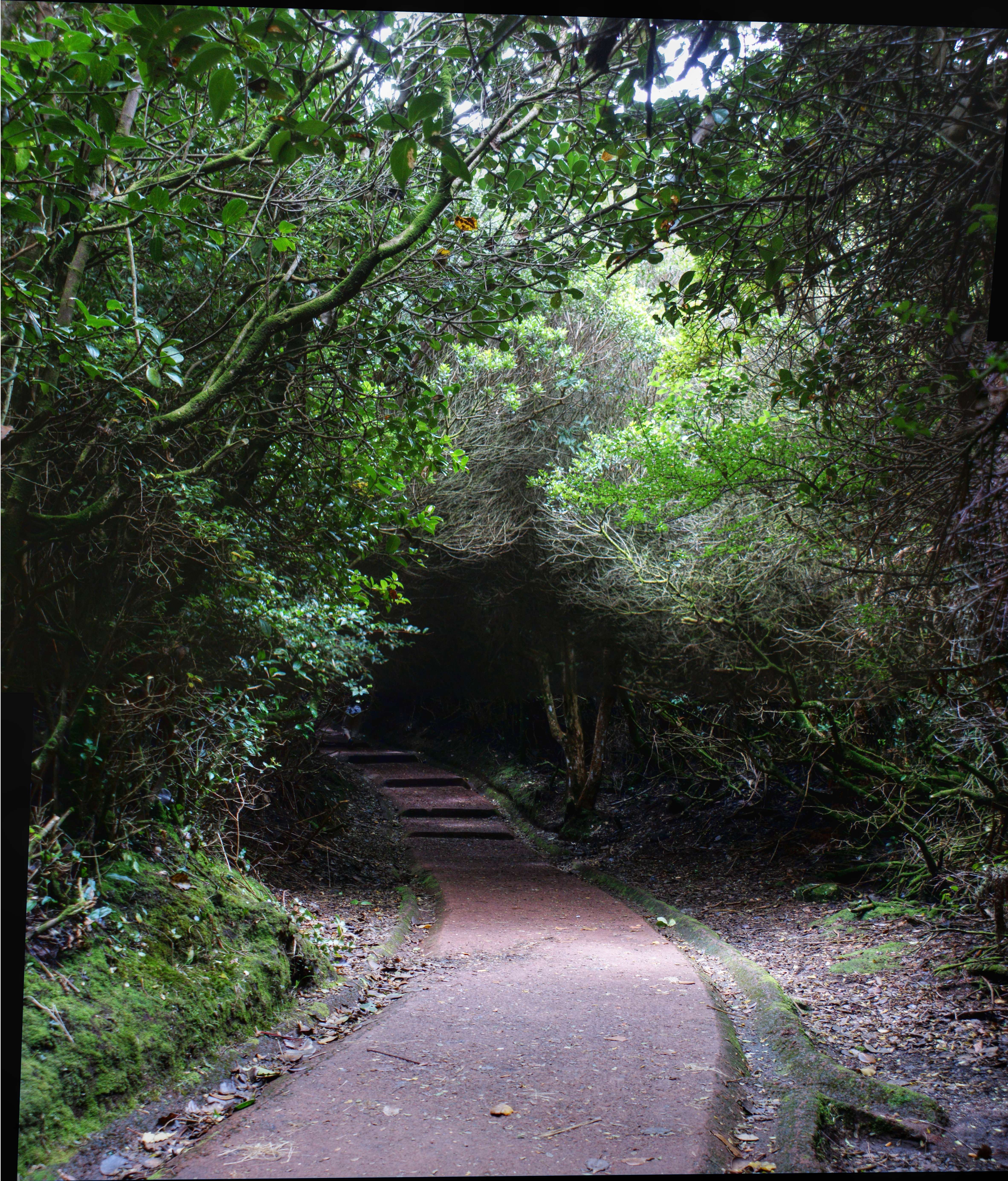 Poas Volcano landscape